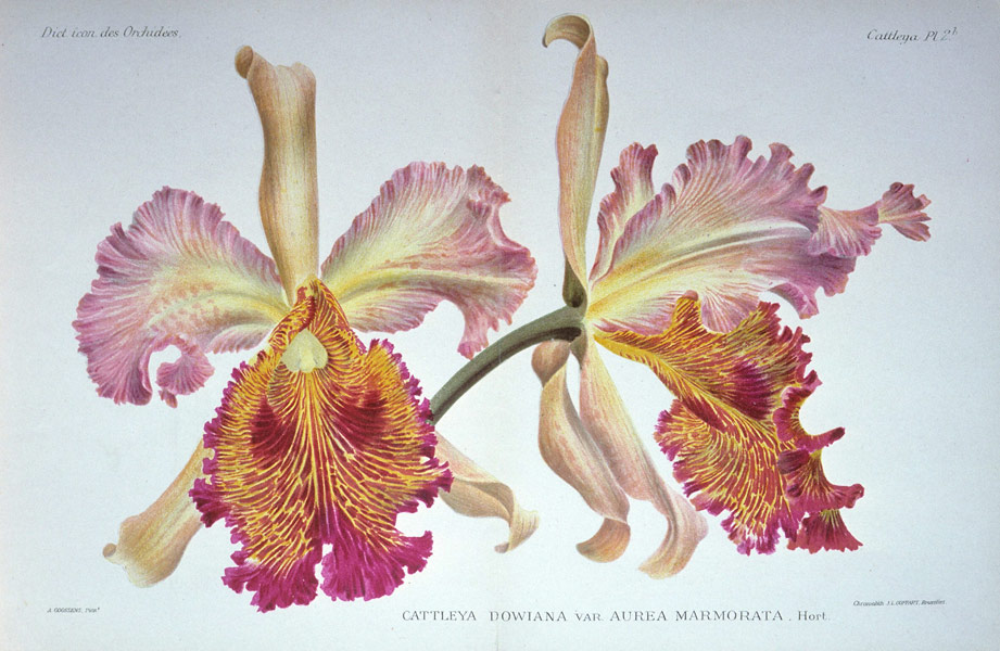 Dow's Cattleya